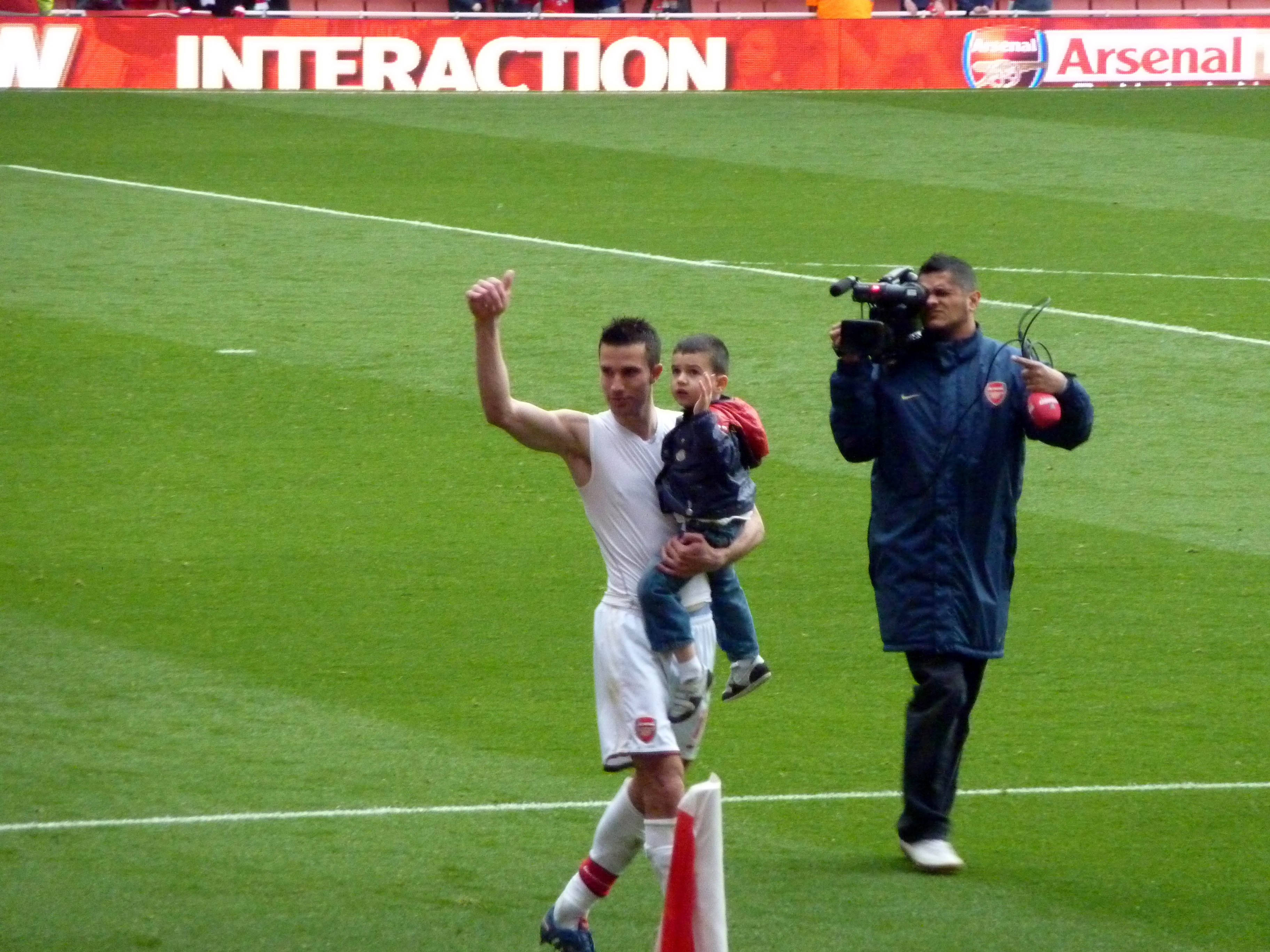 Van Persie with his son Shaquell after training